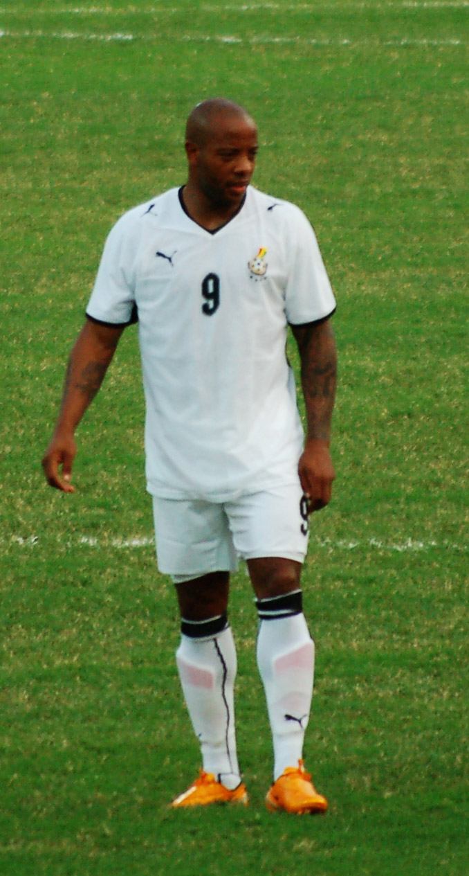 Agogo prematch, Ghana v Nigeria, African Cup of Nations 2008